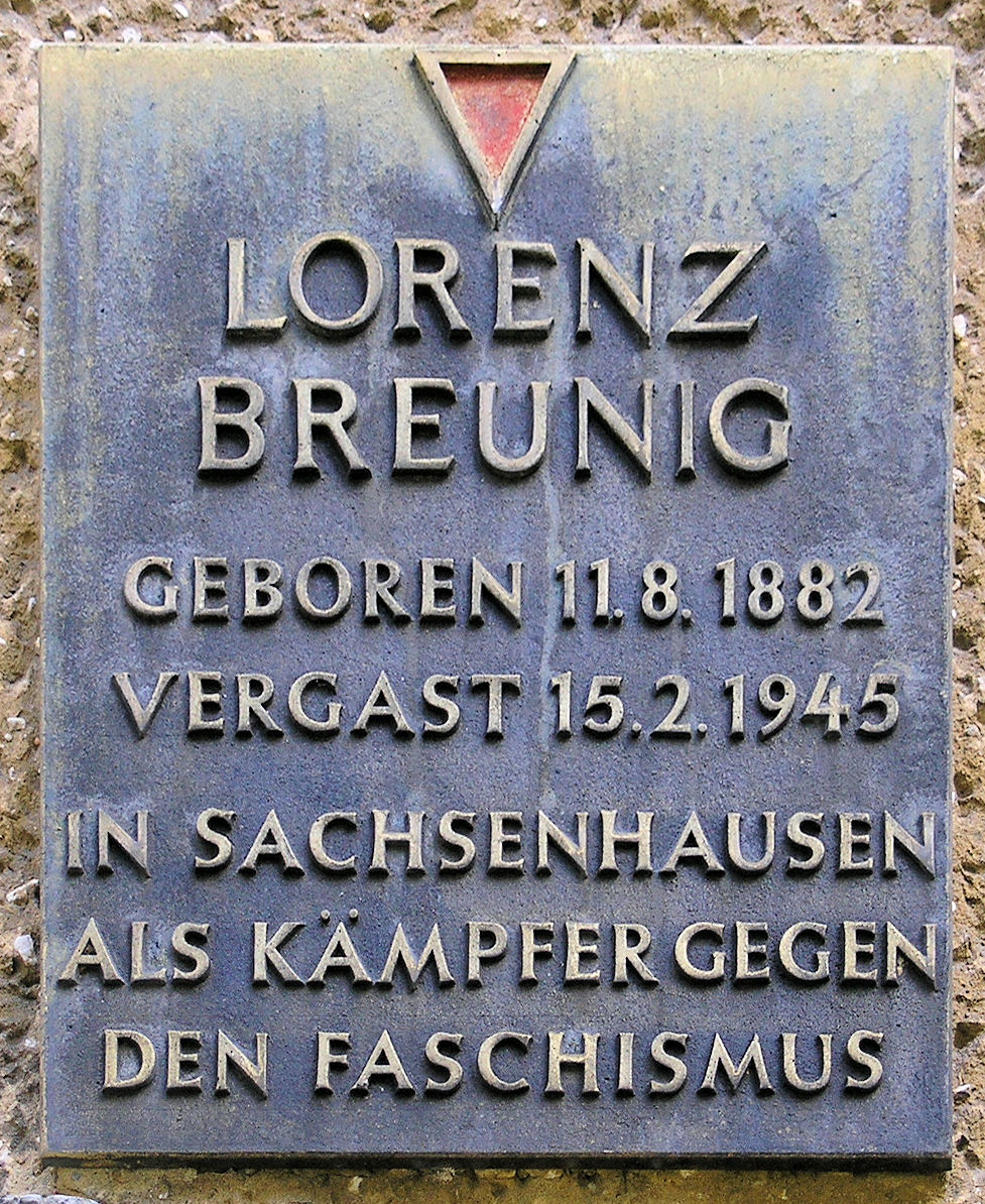 Memorial plaque, Lorenz Breunig, Miltenberger Weg 9, Berlin-Pankow, Germany Koordinate:52°34′9″N 13°25′12″E / 52.56917°N 13.42°E